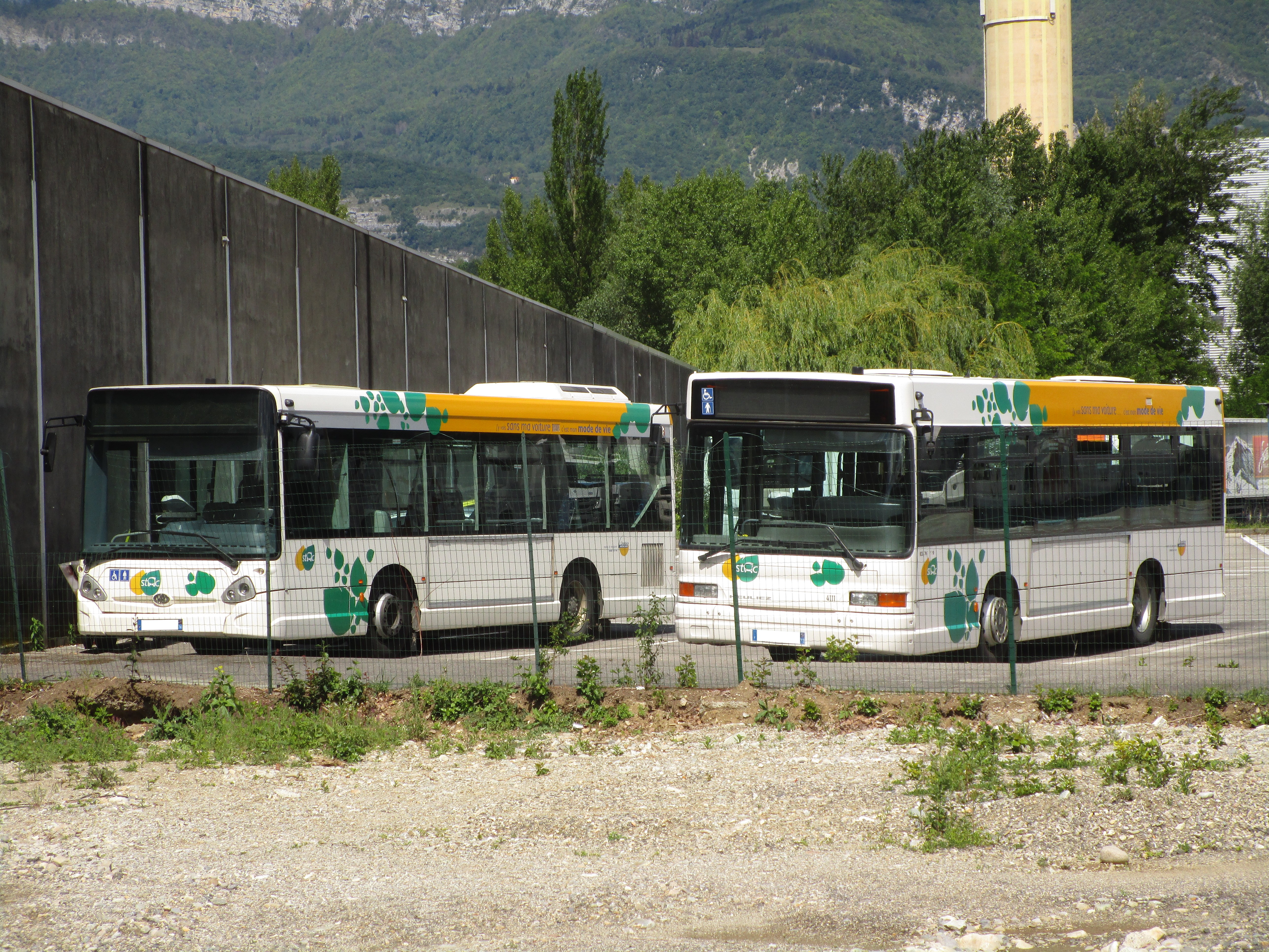 An Heuliez GX 127 (n°7011 of Transavoie) and an Heuliez GX 117 (n°4111 of Transavoie) at the yard (Chambéry, France) on May 20, 2017.